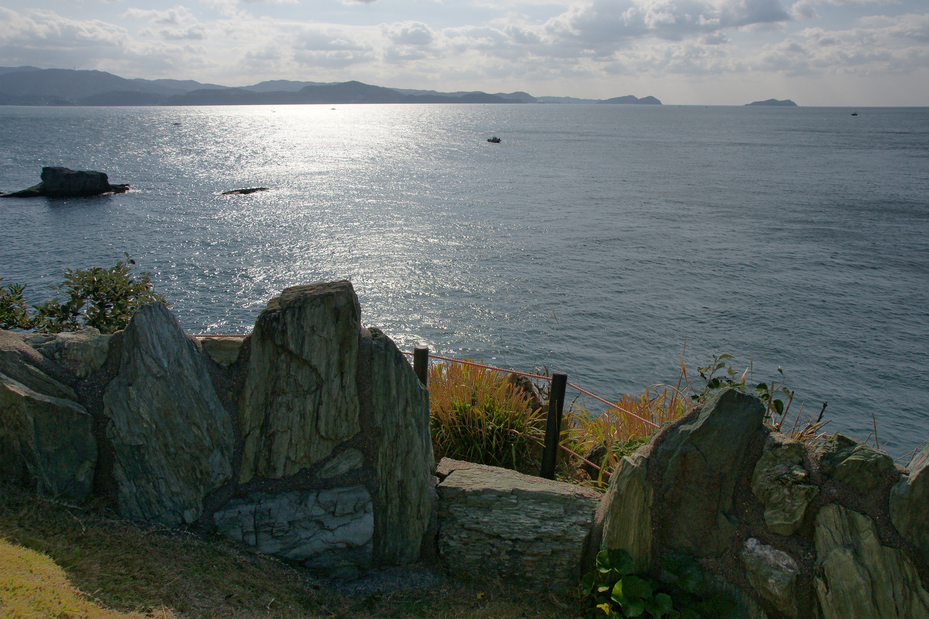 Bandoko Garden, Wakayama, Wakayama prefecture, Japan